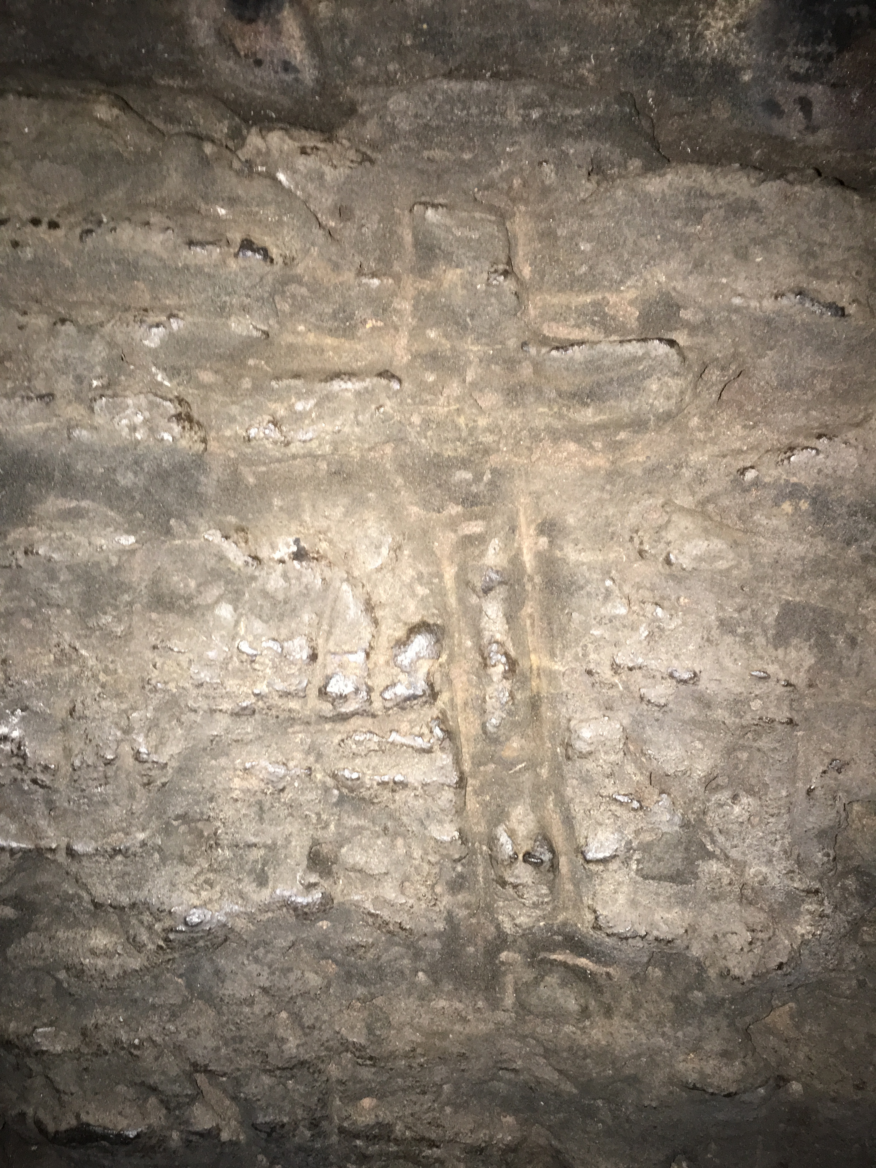 The cross from the cave "Fjóshellir"